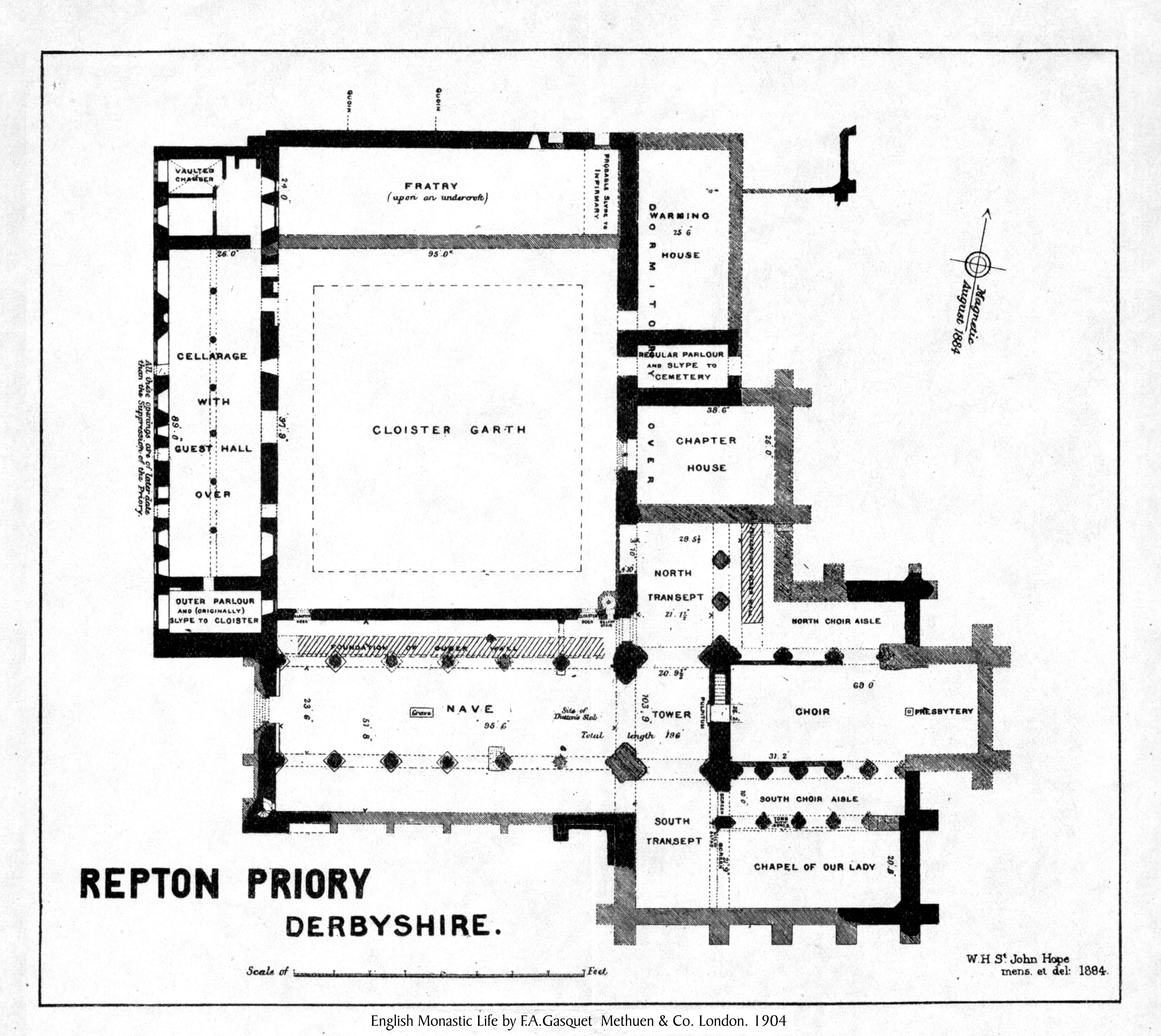 A Plan of the Augustine Priory previously at Repton, Derbyshire